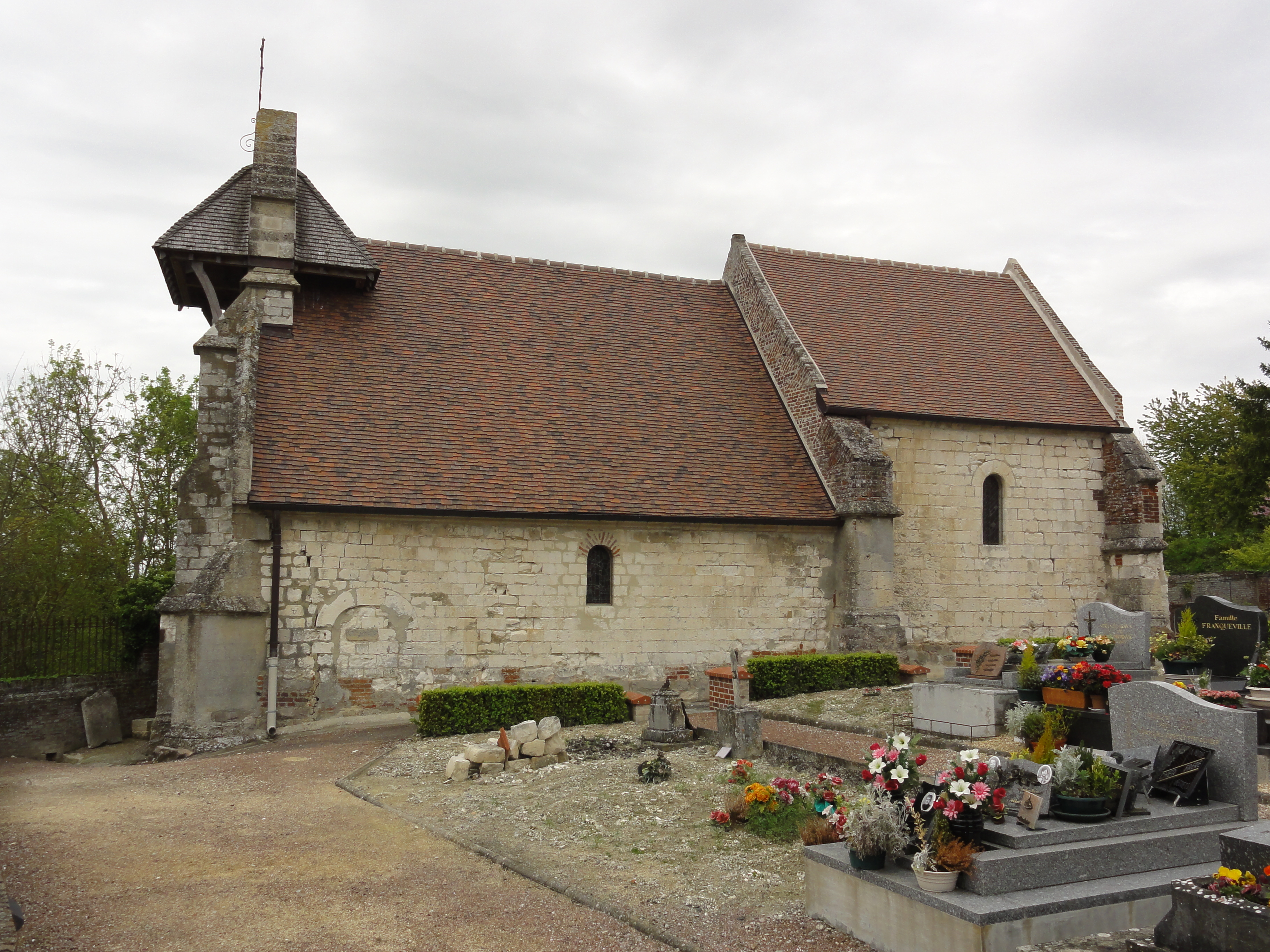 Courbes (Aisne) église